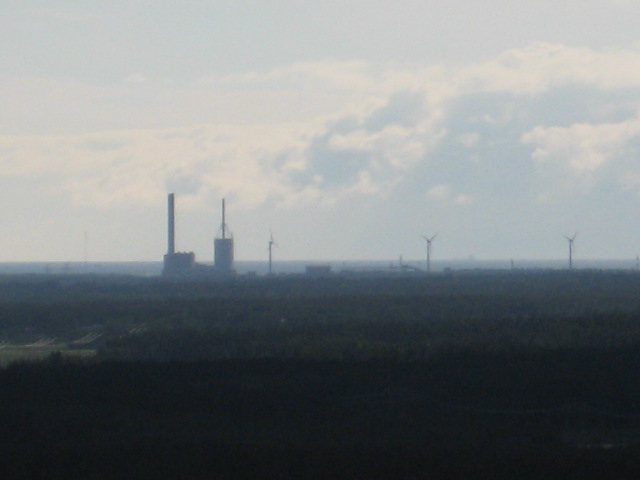 Pohjolan Voima's power plant in Kristinestad. Picture was taken on the top of Bötombergen hill in July 2008.